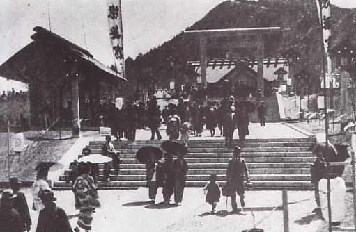 Dairen Shrine